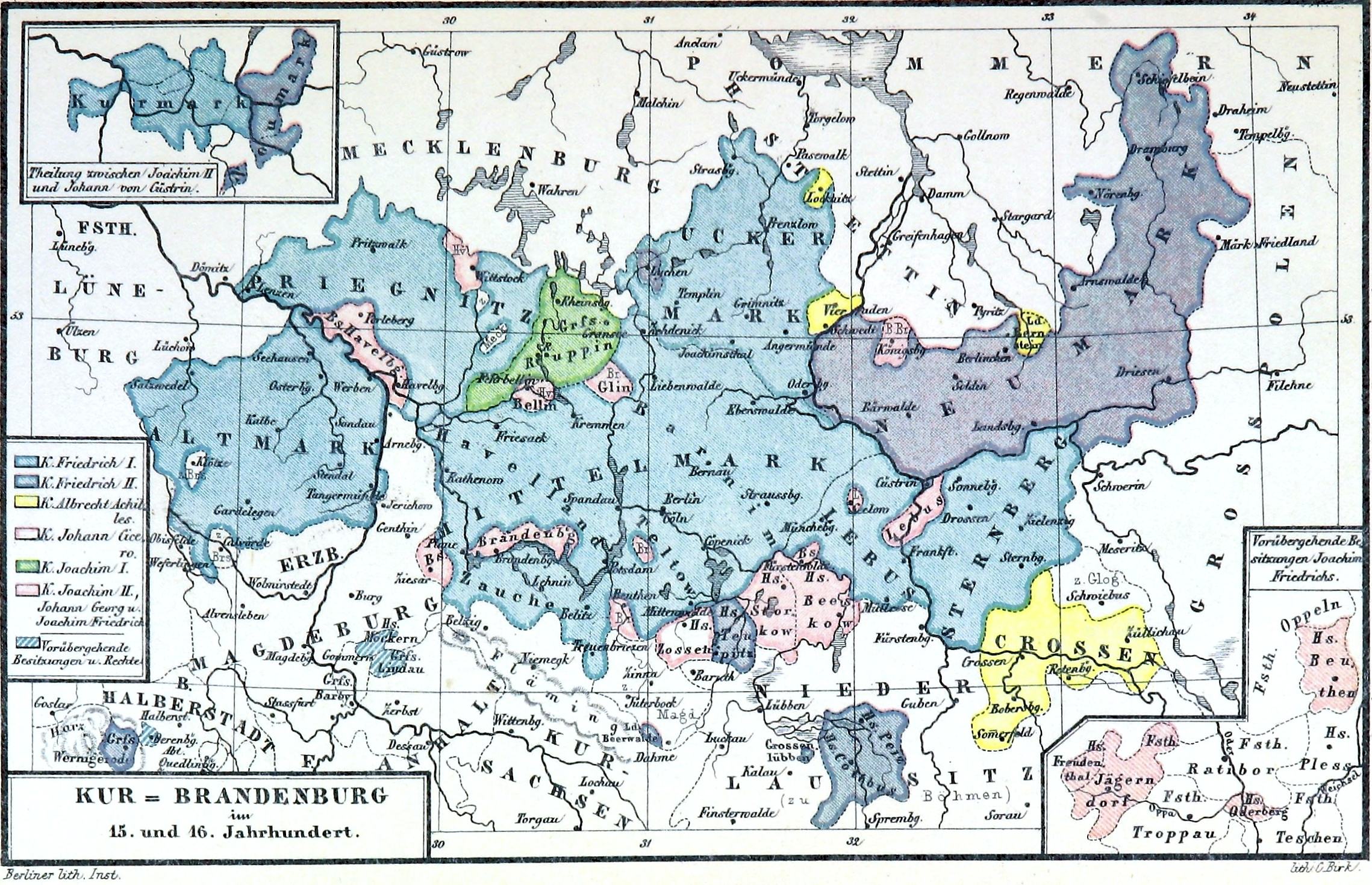 Image extracted from page 75 of Die Territorialgeschichte des brandenburgisch preussischen Staates, im Auschluss an zehn historische Karten übersichtlich dargestellt, Fix W. Original held and digitised by the British Library. Note: The colours, contrast and appearance of these illustrations are unlikely to be true to life. They are derived from scanned images that have been enhanced for machine interpretation and have been altered from their originals.